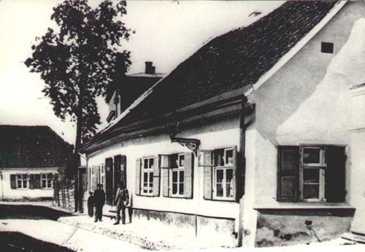 Uppsala House is one of the oldest wooden buildings in Tartu in Finland. It is close to St John's Church on the northern part of the town. The house was renovated in co-operation with Tartu's sister city of Uppsala in Sweden and it was operated as a five bedroom guest house until 2010.